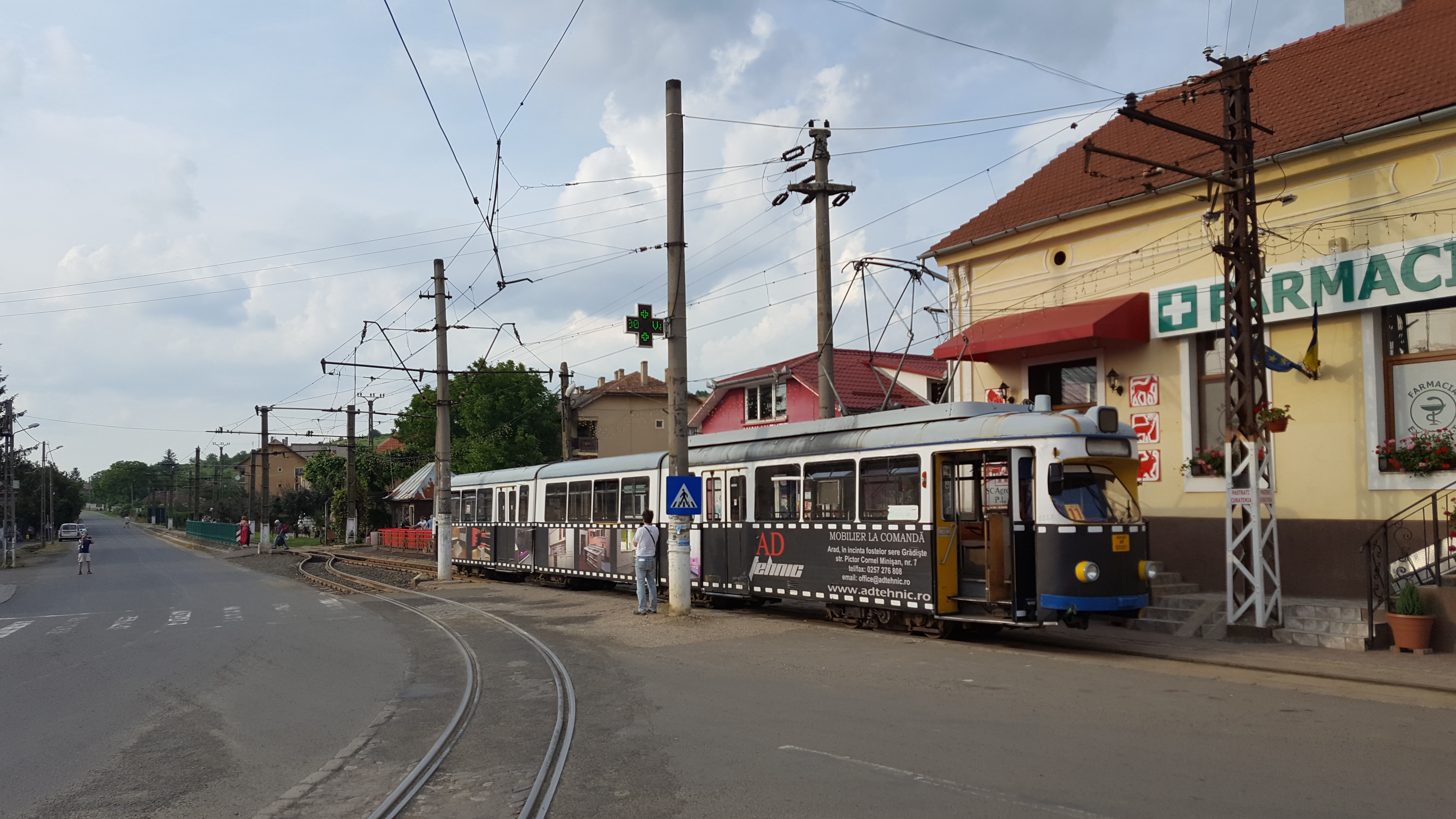 A tram turning at Ghioroc, Romania